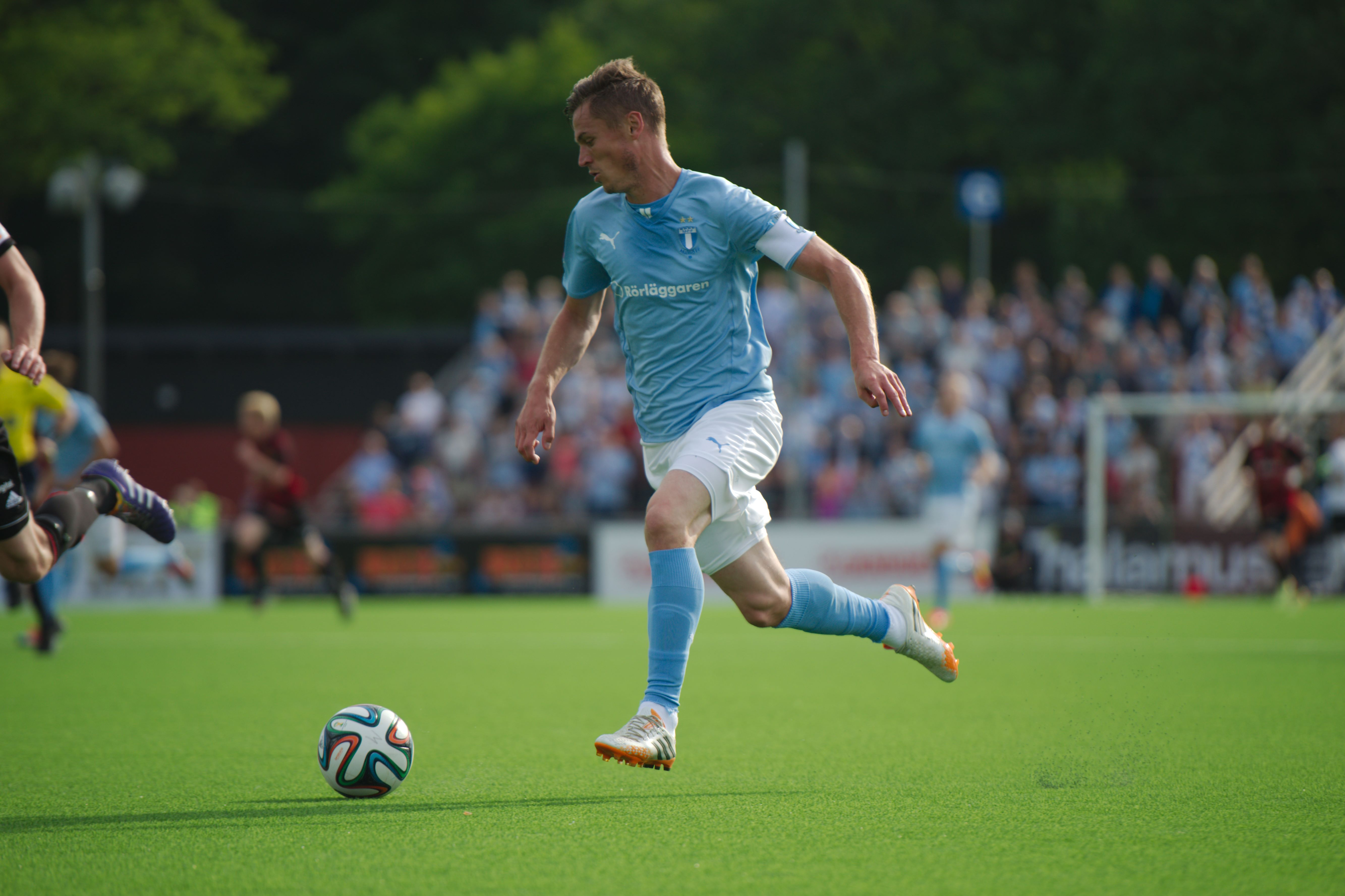 Allsvenskan IF Brommapojkarna-Malmö FF at Grimsta IP converted PNM file